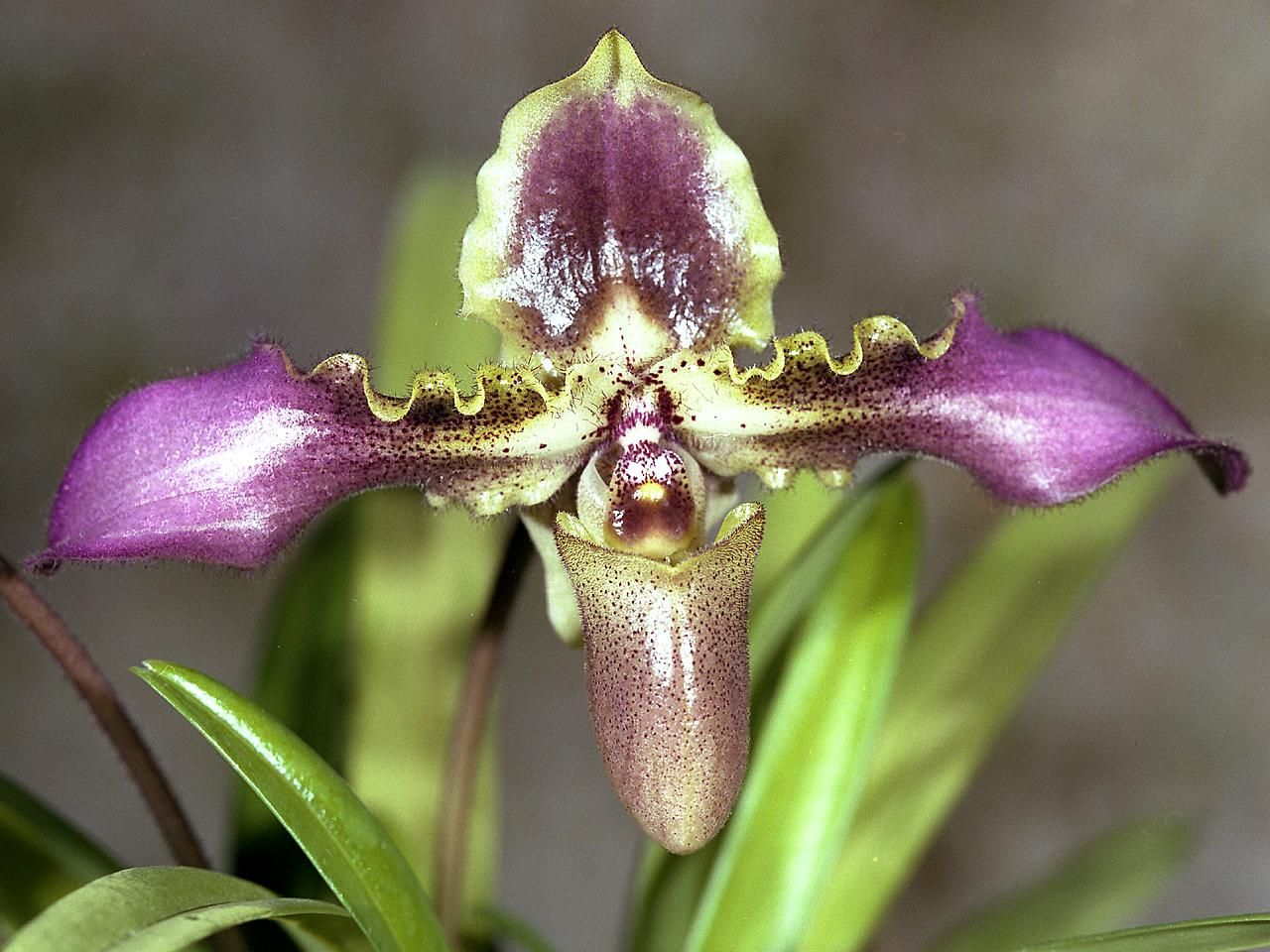 Paphiopedilum hirsutissimum - flower